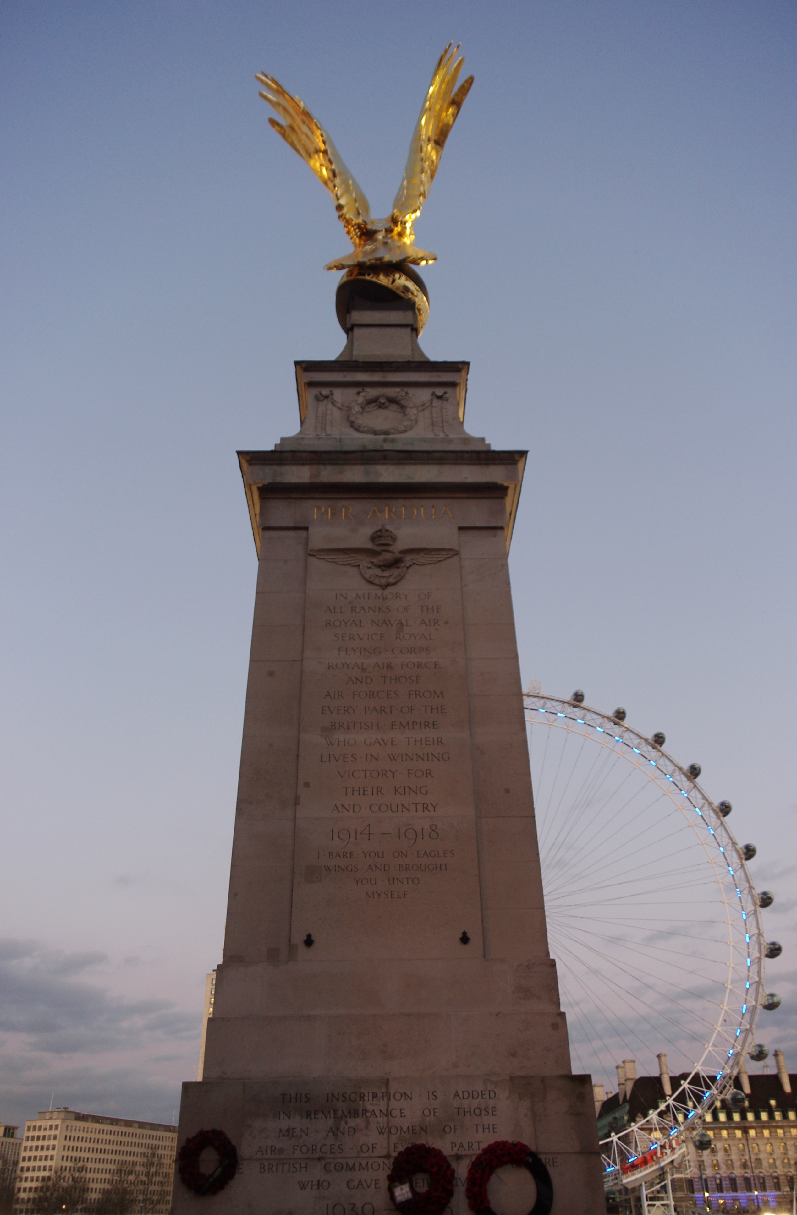 RAF war memorial on the Thames Embankment in London with the London Eye in the background.